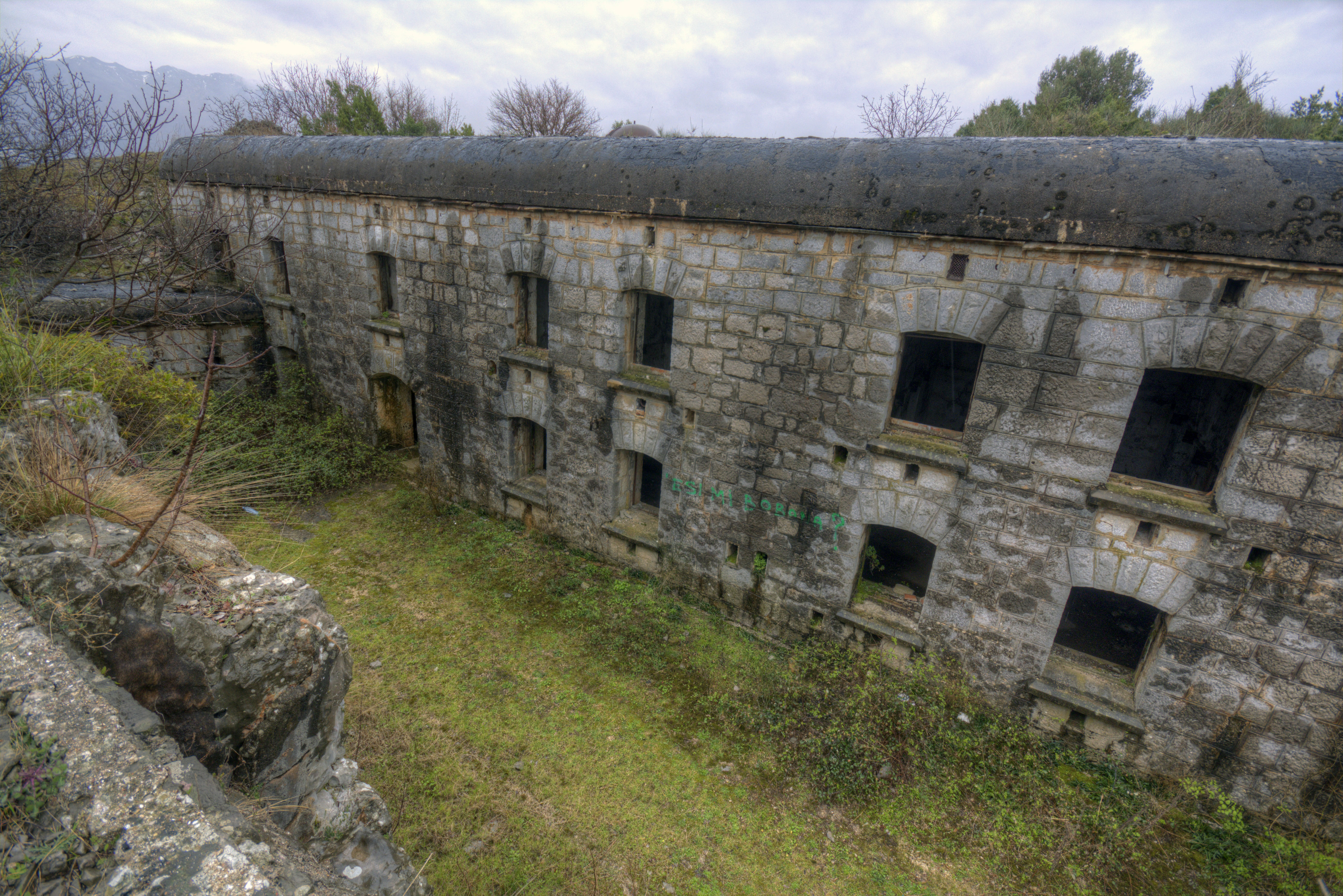 Entrance and ditch of Fort Trašte